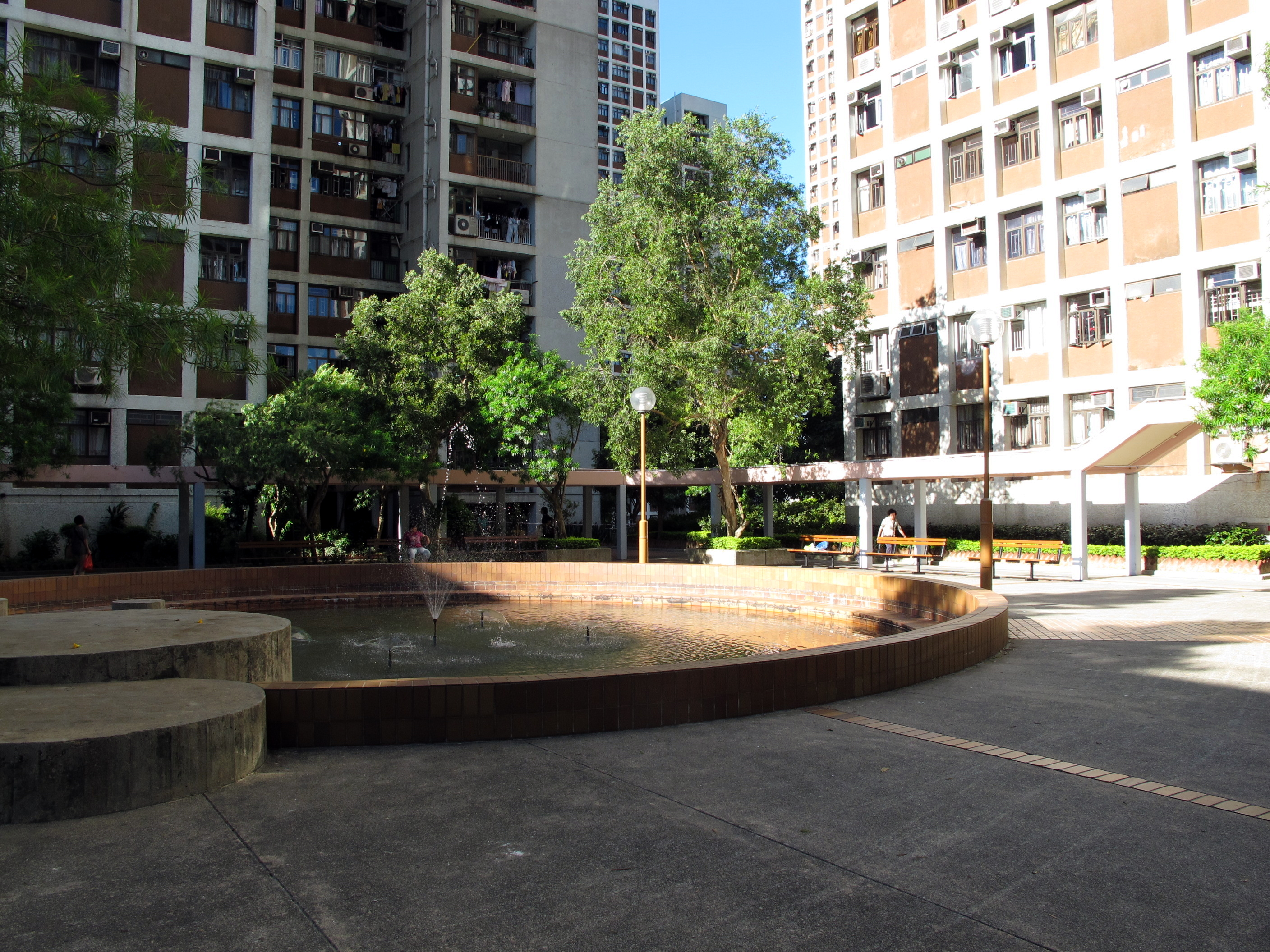 Sui Wo Court Phase 2 Garden